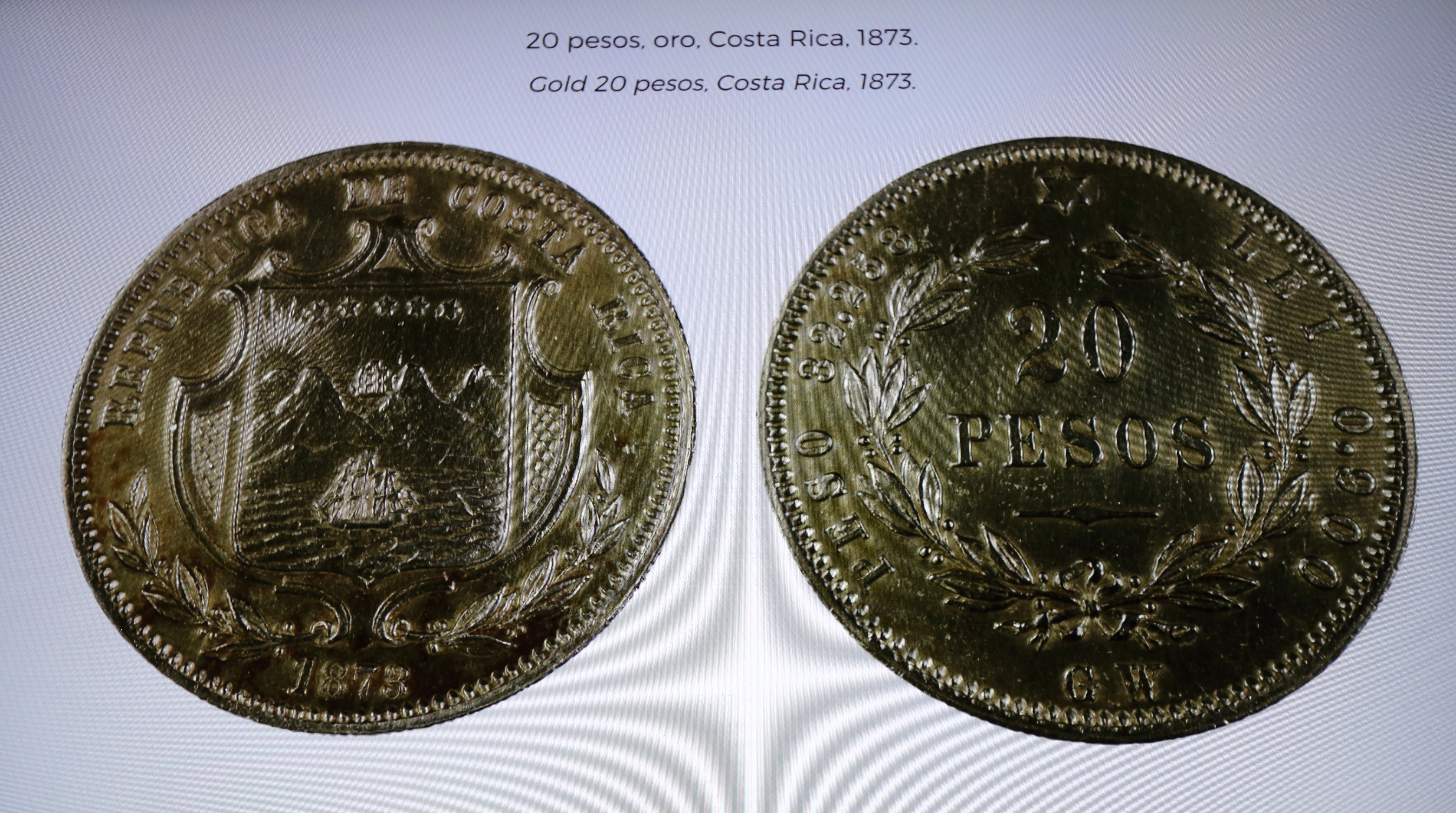 Gold 20 pesos, Costa Rica, 1873 (picture of a picture on a monitor).